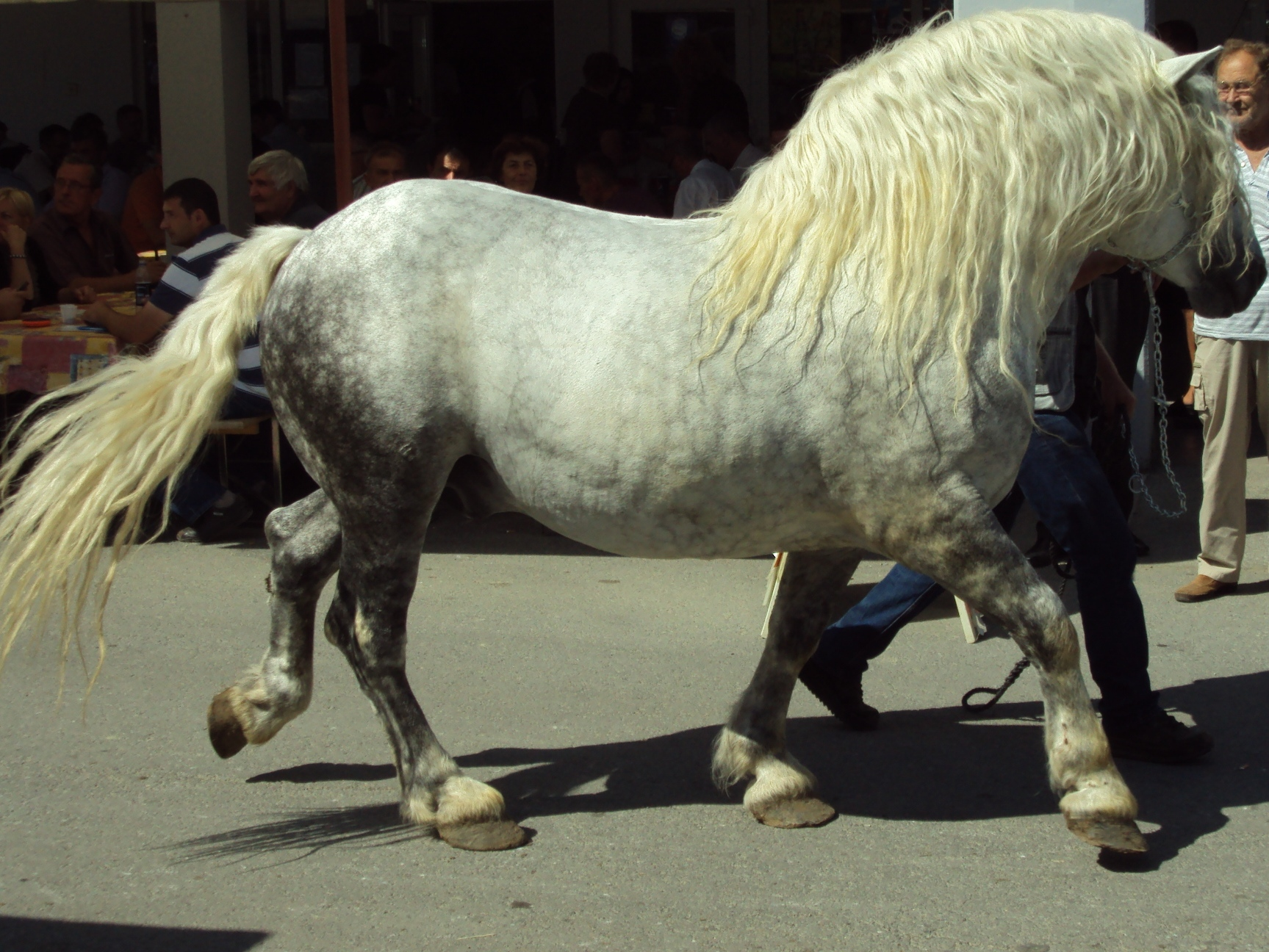 Croatian coldblooded horse - Agriculture Fair in Bjelovar, Croatia